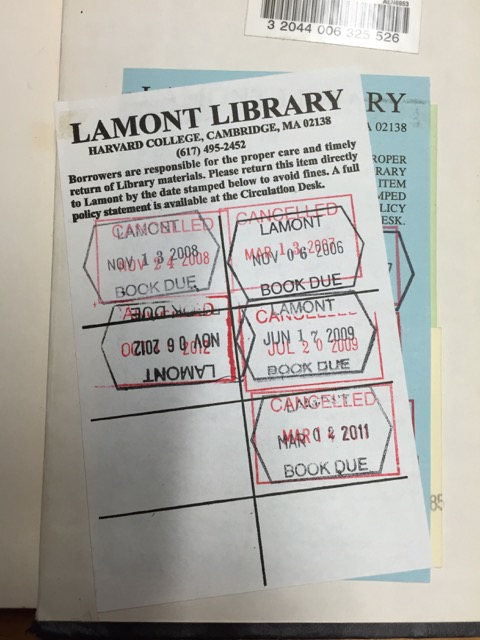 A date due slip that has been checked out and returned many times.